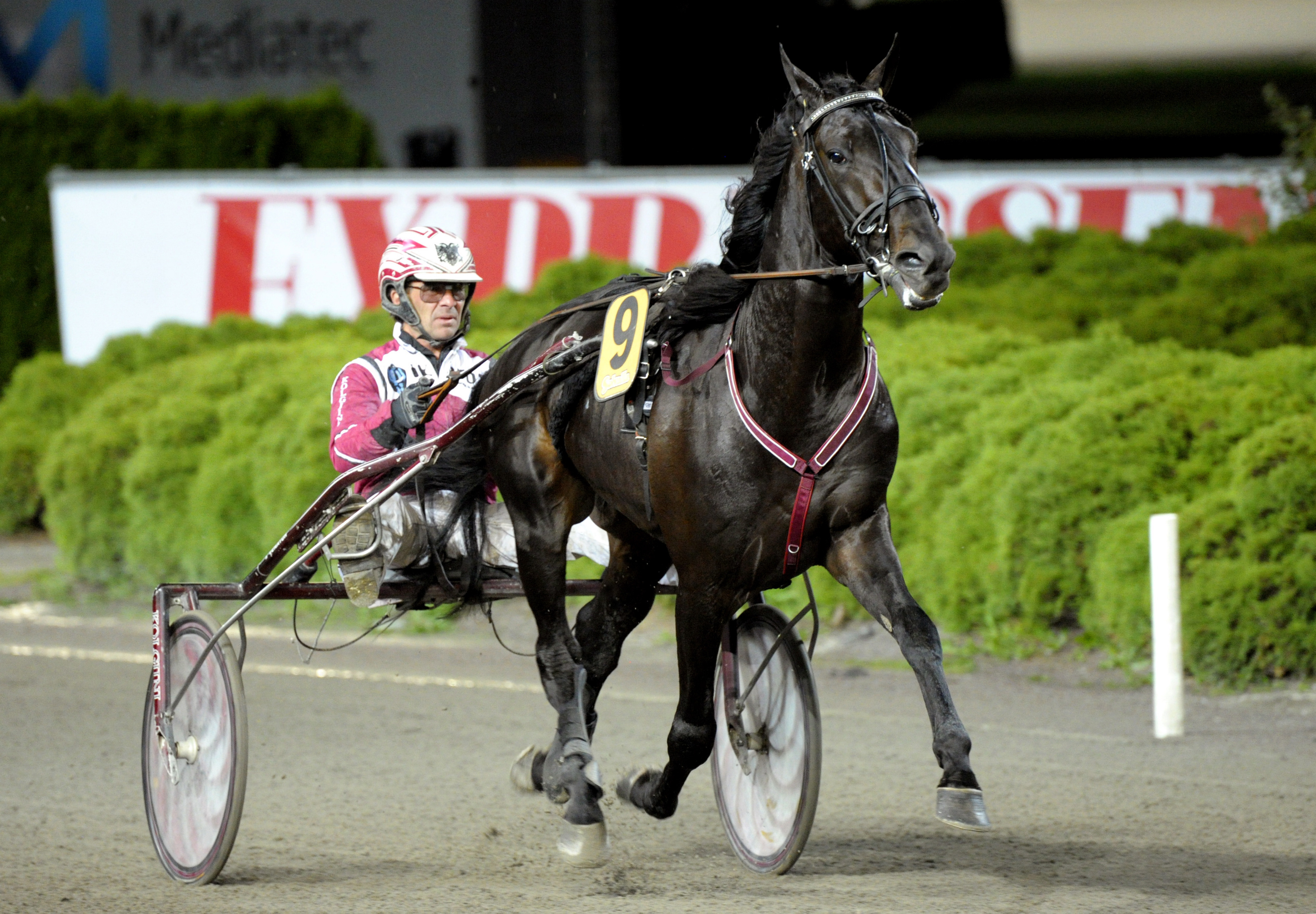 Trotting horse El Mago Pellini and driver/trainer Lutfi Kolgjini.